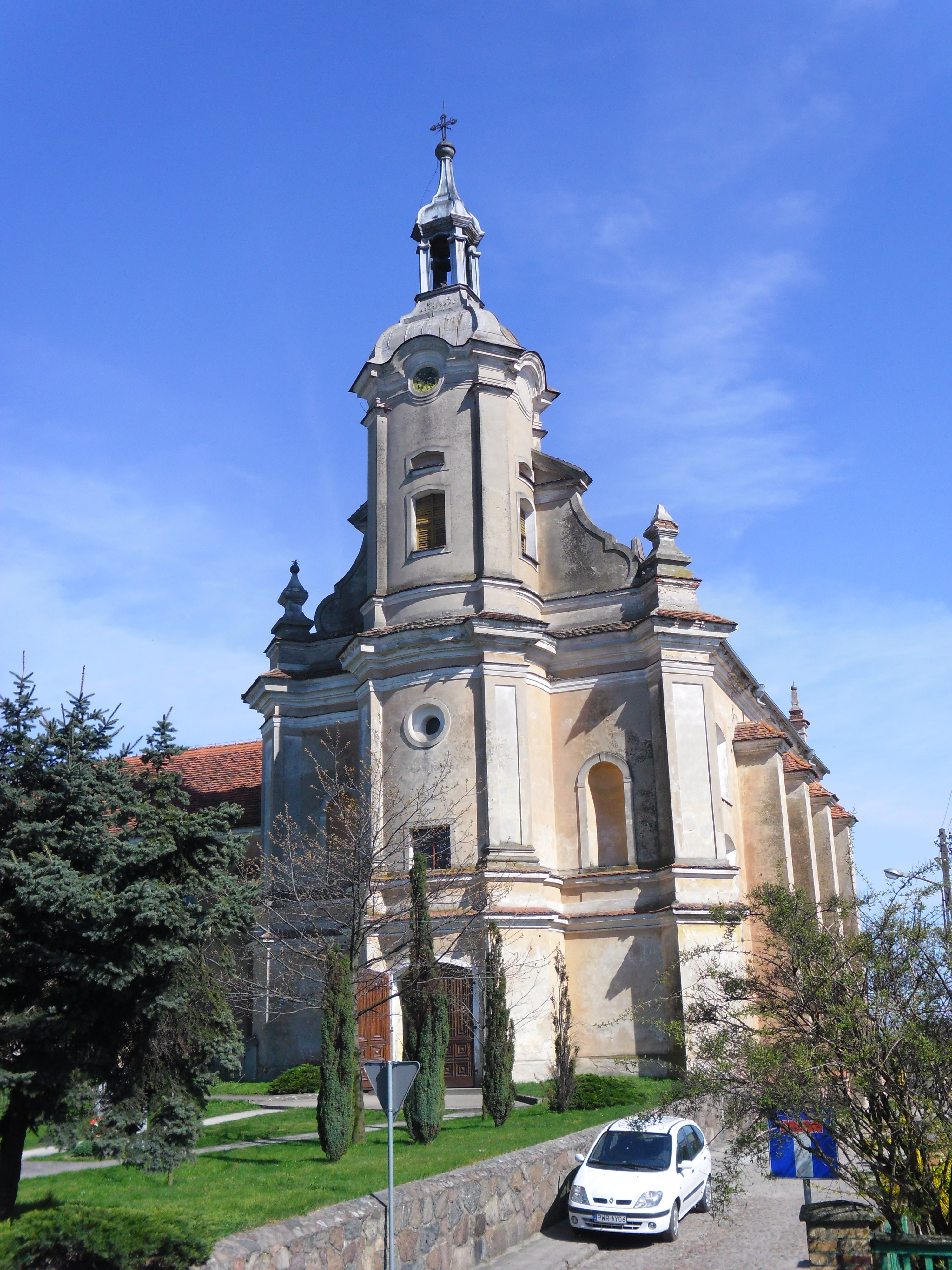 Front view of the church in Pyzdry in Poland